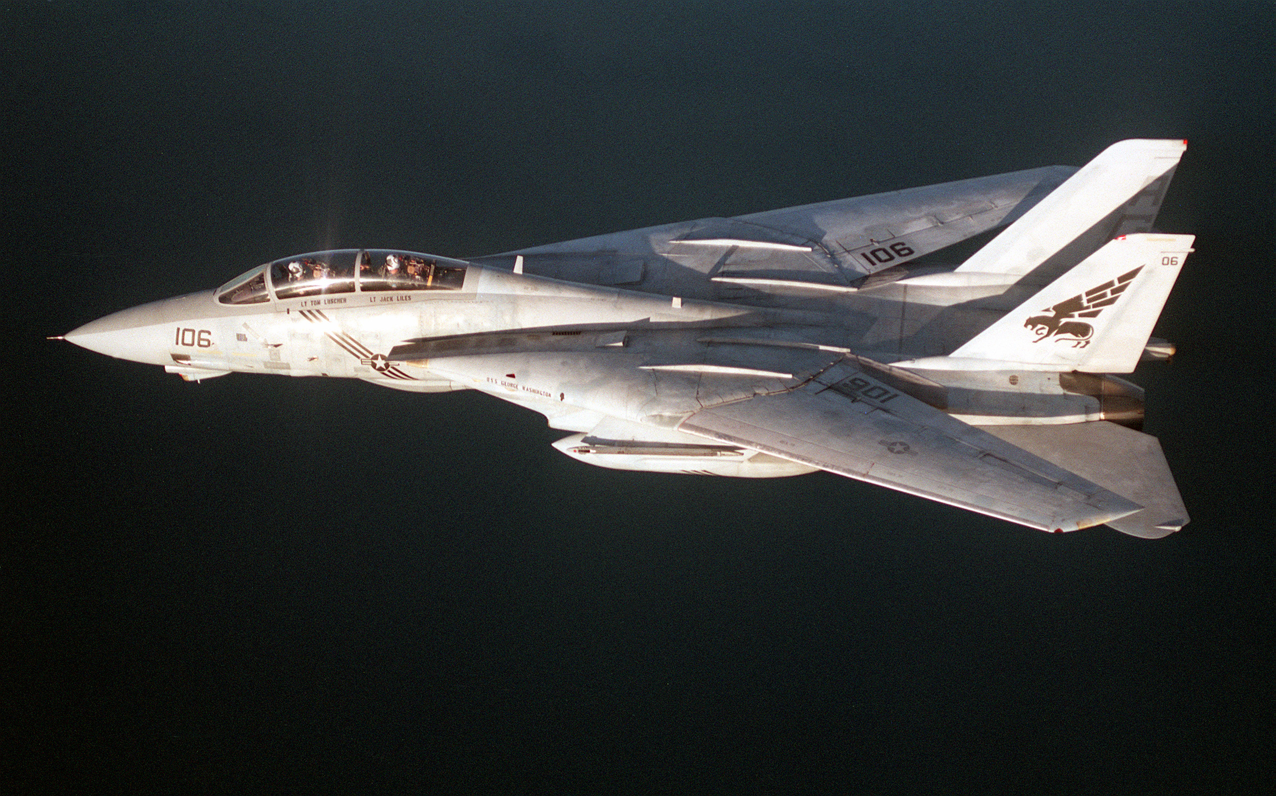 Air to air left side view of an F-14B Tomcat aircraft of Fighter Squadron 143 (VF-143), the Pukin' Dogs, in flight over Lake Pyramid. The aircraft is piloted by Lt. Chris Blaschum, USN and the radar intercept officer (RIO) is Lt. Jack Lies, USN.